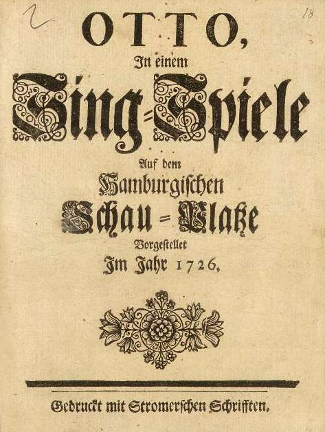 Front page of the opera Otto published 1726 in Hamburg, libretto by Johann Georg Glauche